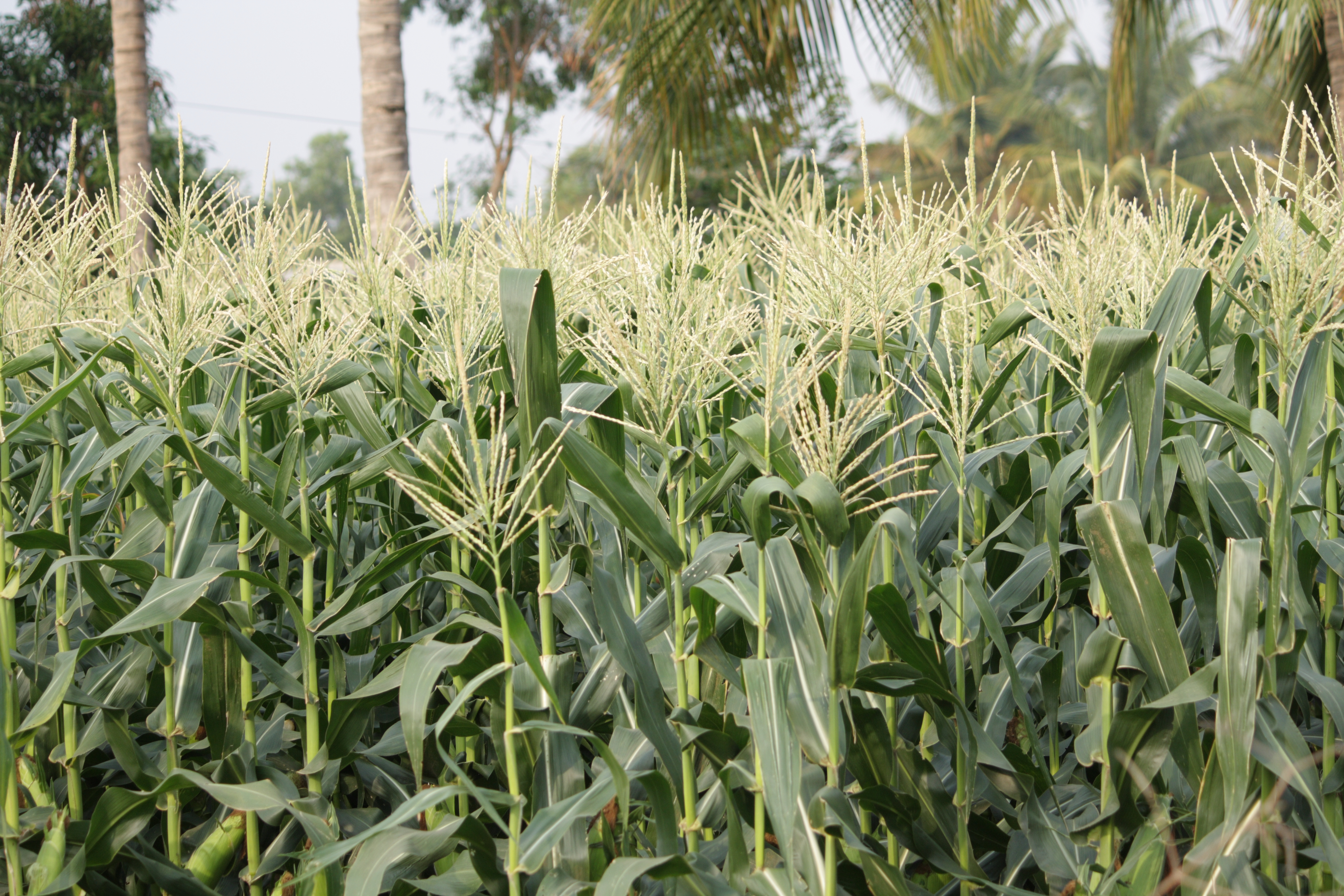 Corn plants